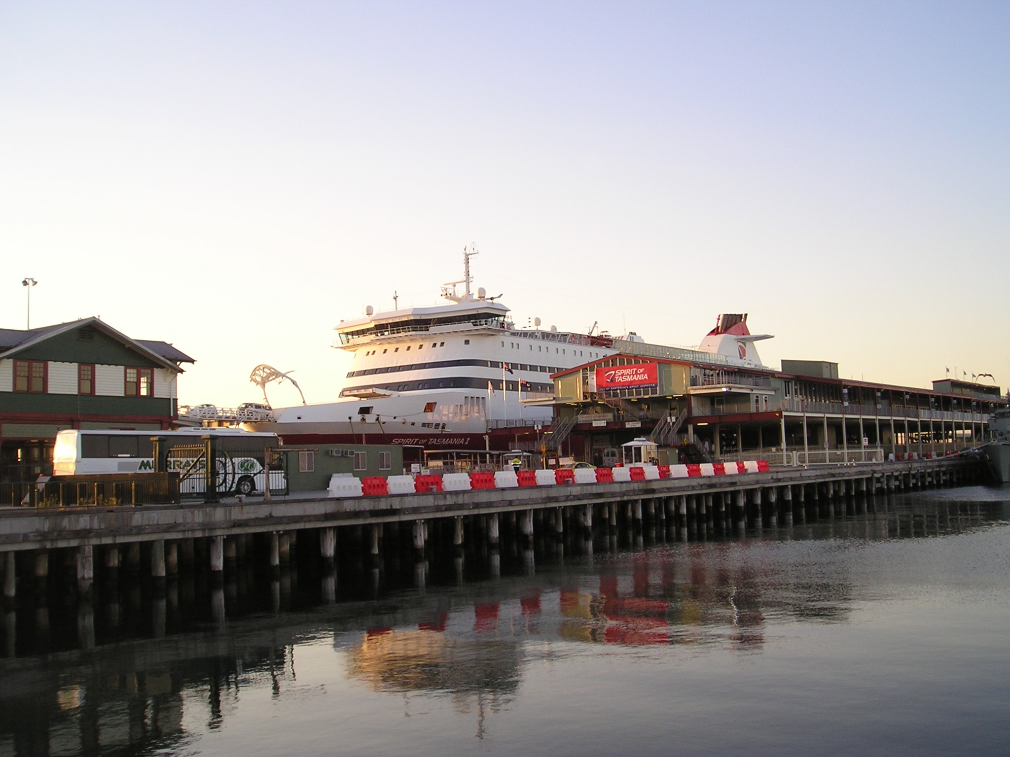 Station Pier March 2006. Ferry Spirit of Tasmania Photo by Paul Dashwood